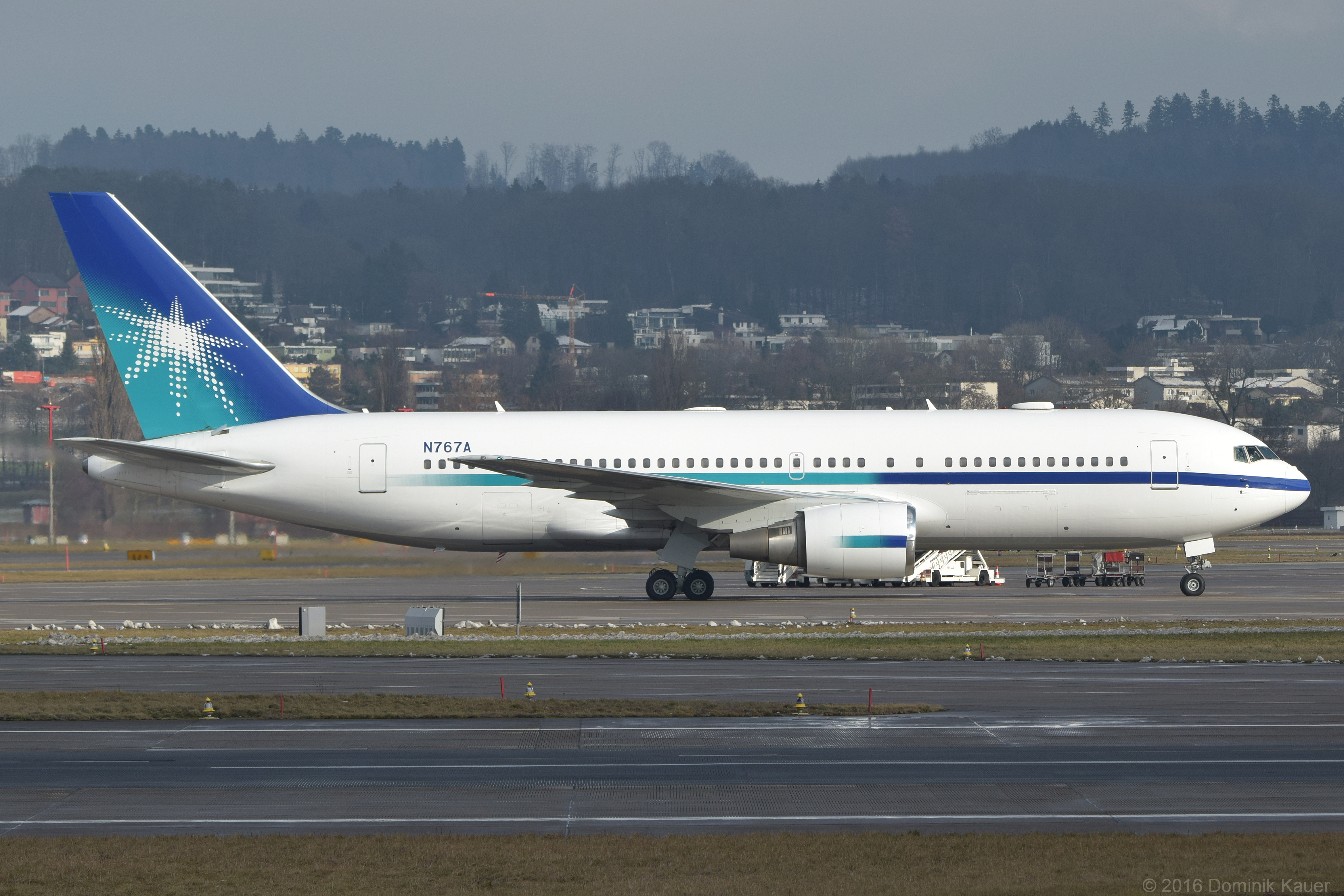 Saudi Aramco Boeing 767-2AX(ER) taxiing to the C stands in Zurich.